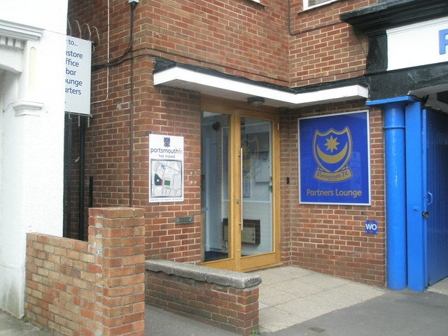 Entrance to the Partners Lounge at Fratton Park